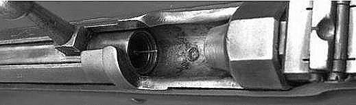 Bolt face and Firing pin (Dreyse Needle) of Dreyse M1841.